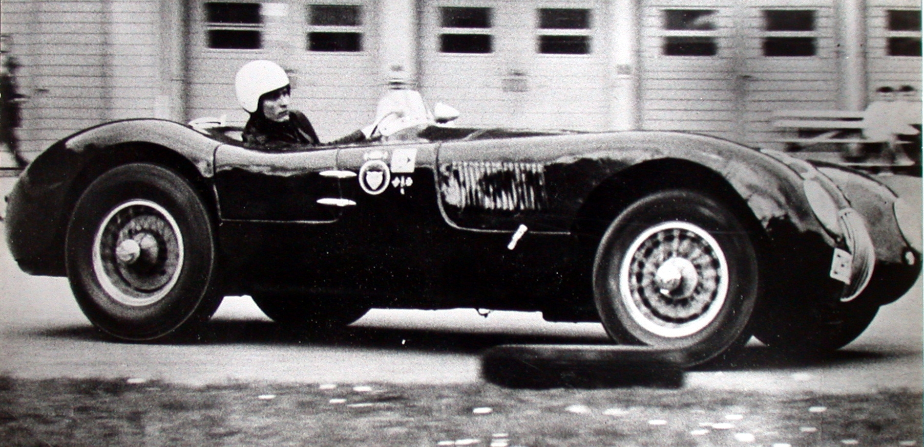 Jaguar C-Type XKC 045 at speed